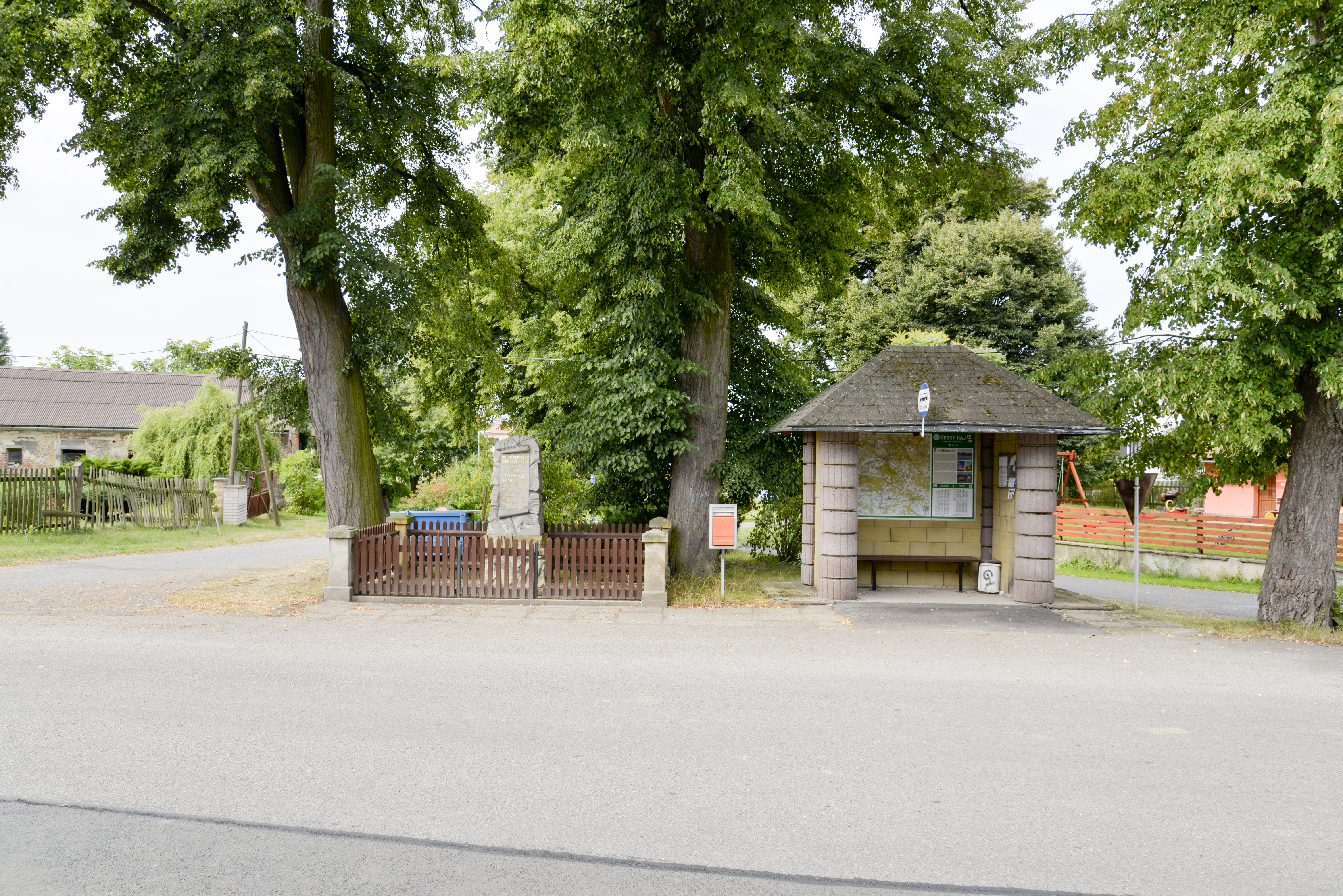 Úhelnice - small village, part of Kněžmost in Mladá Boleslav District, bus stop